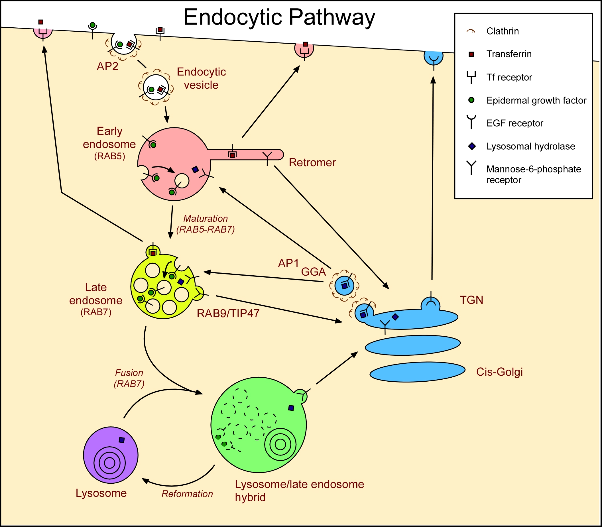 The endocytic pathway in animal cells. Endocytosed molecules from the cell surface are internalized to early endosomes. These then develop into late endosomes/multivesicular bodies (MVBs) by maturation; recycling molecules are removed, pH is lowered, lumenal vesicles form, and RAB5 is replaced with RAB7, making them competent for fusion with lysosomes. Fusion creates a hybrid, from which a lysosome is reformed. Molecules recycling to the plasma membrane can traffic via recycling endosomes (not shown). Molecules are also transported to/from the Golgi. More complicated pathways exist in specialized cells. Transferrin and its receptor cycle between the plasma membrane and (mainly) early endosomes. Transferrin releases its iron in the acidic endosome. EGF receptors that are activated by binding EGF, are downregulated by degradation in lysosomes. EGF binding stimulates ubiquitination of EGFRs and this targets them to the lysosome lumen, via lumenal vesicles. Mannose-6-phosphate receptors cycle between the Golgi and endosomes, releasing their cargo due to the low pH of the endosomes.